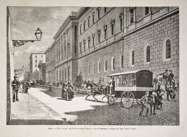 Nuovo Palazzo del Ministero della Guerra in Via XX Settembre by Dante Paolocci (ca. 1880)